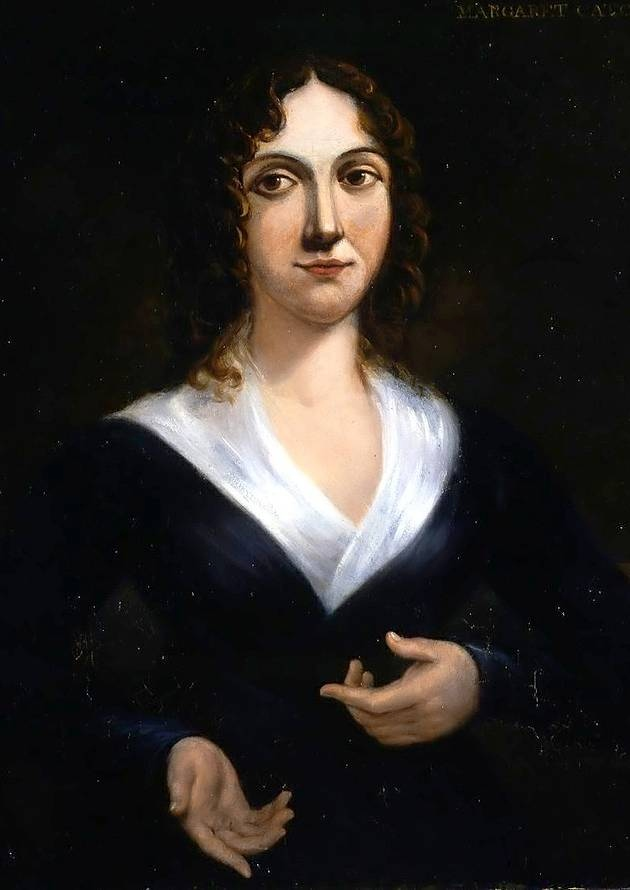 Portrait of Margaret Catchpole, oil on canvas, 102 x 85 cm.